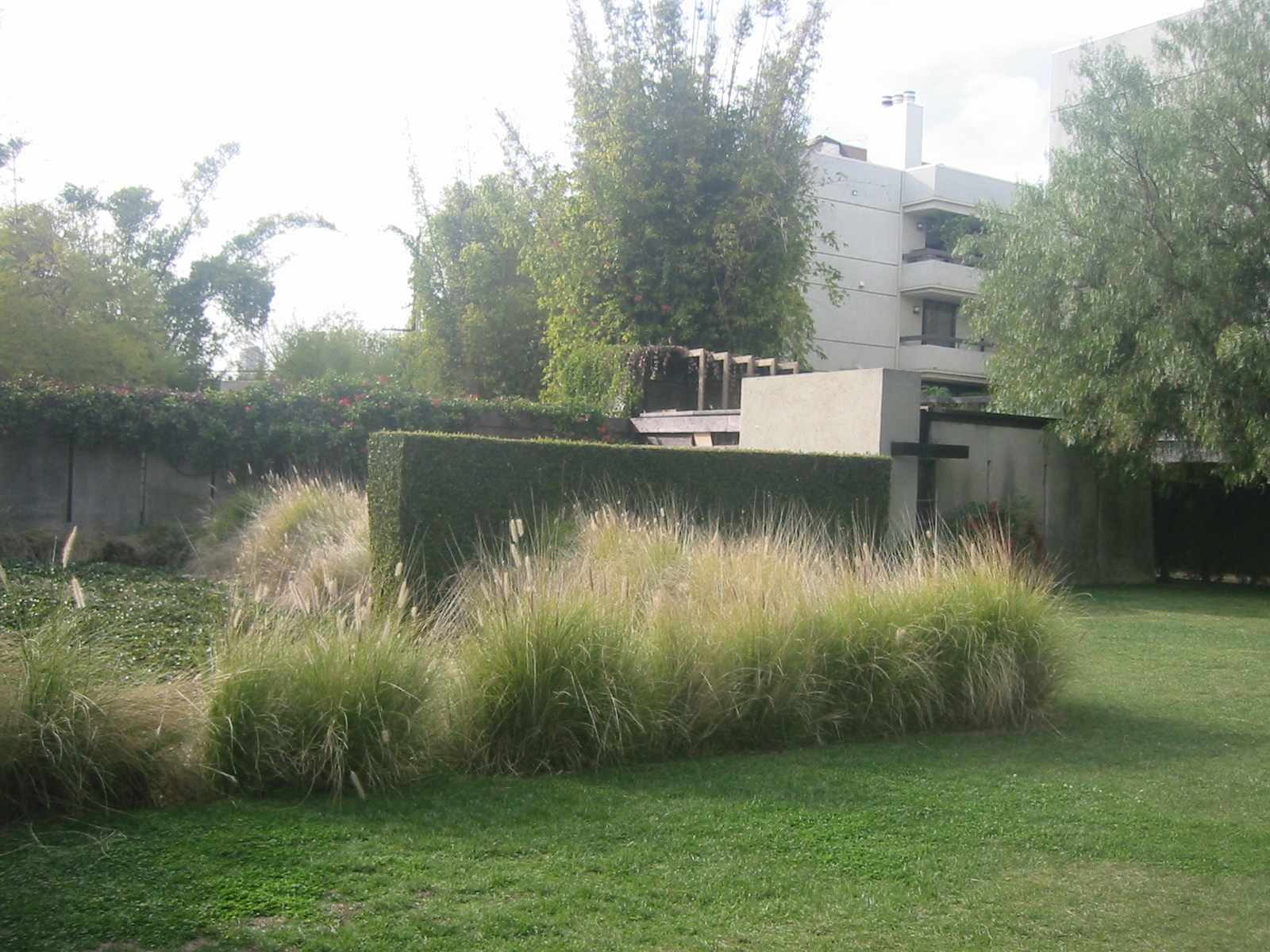 The Schindler-Chase House, or Kings Road House in West Hollywood, California. Exterior view from Kings Road